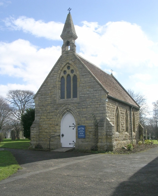 The Church on the Corner, Hallfield Lane, Wetherby, West Yorkshire, seen from the northwest. It was built as the eastern member of the pair of mortuary chapels in Wetherby cemetery. It is now a daughter church of St James' parish church.